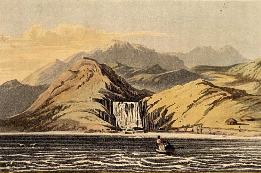 The Pok Fu Lam Waterfall drawn in the early 19th century. It was located at the west side on Hong Kong Island, also a place for water collection at that time. The waterfall now located inside the Pok Fu Lam Park. However, it was cut in half due to the construction of water reserve in 1863.